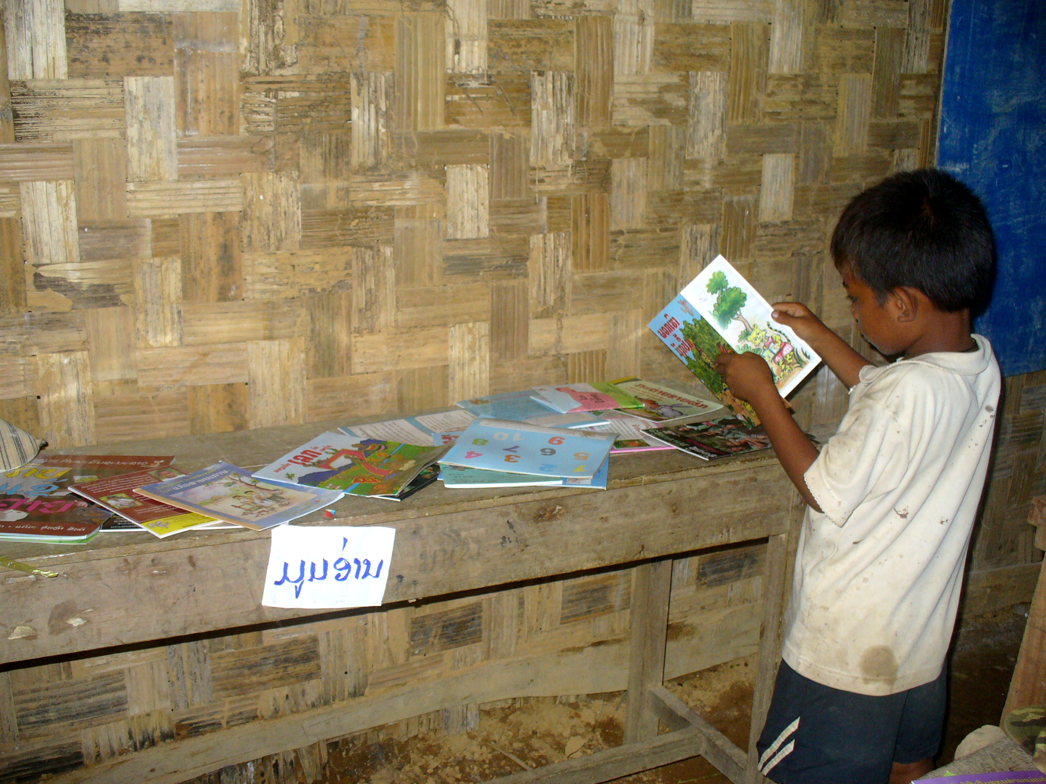 A boy in Laos selects a book to read from his school's new "book corner" provided by Big Brother Mouse, a literacy project. This was the first day of a new daily reading program at the school; in the past, the most schools in Laos had no books that children could read for enjoyment.